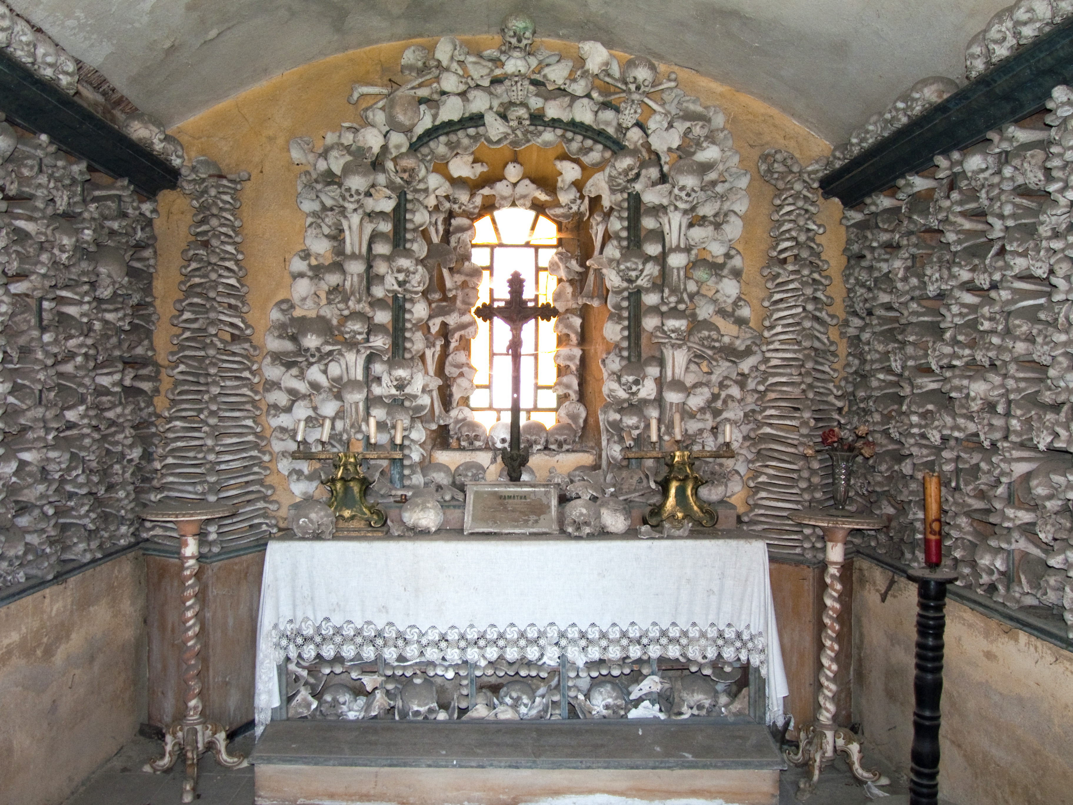 Central view if the interior of the ossuary in the village of Zdislavice, Benešov district, Czech Republic